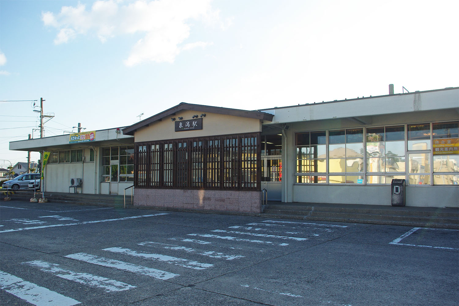 Uetsu Main Line Kisakata Station